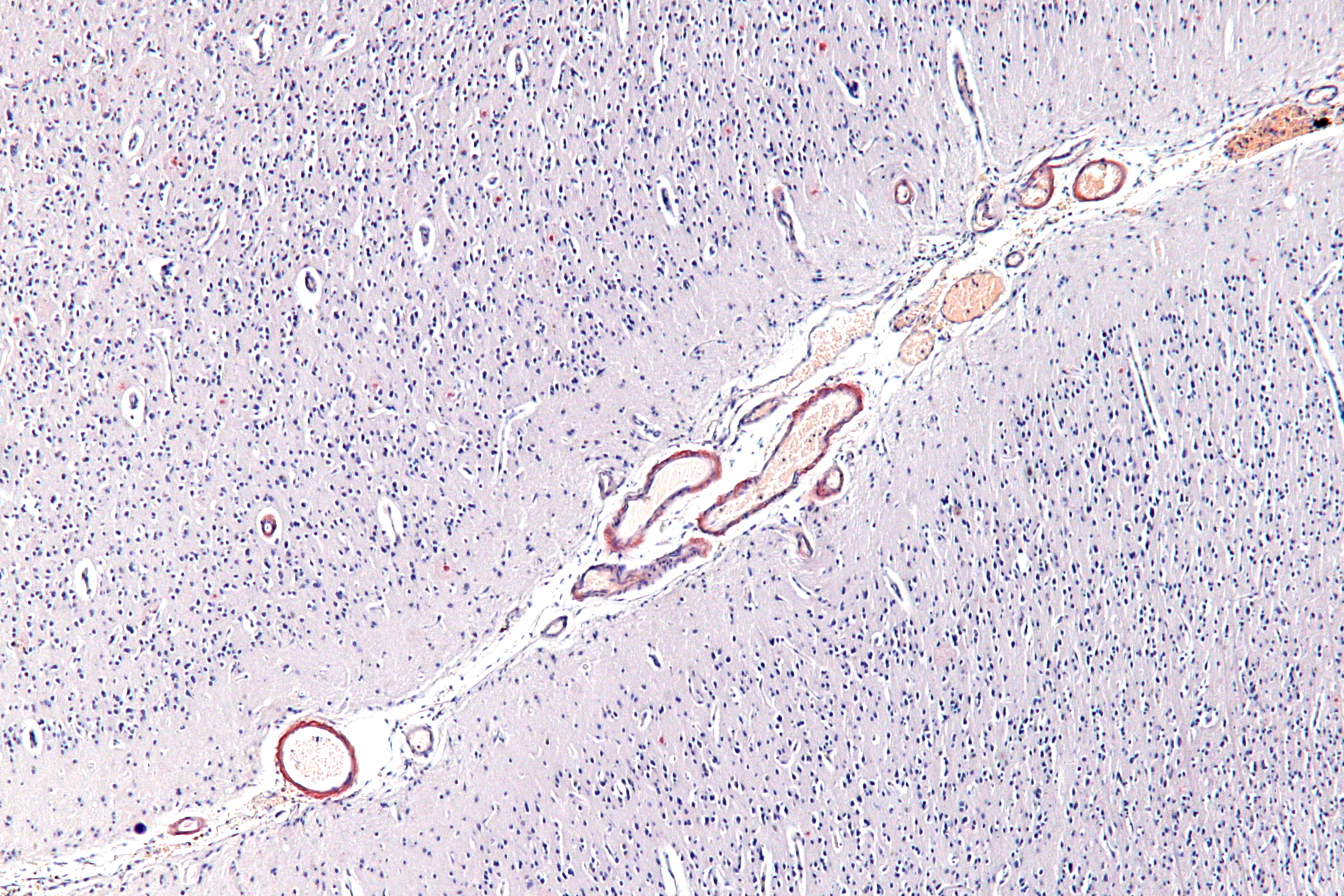 Low magnification micrograph of cerebral amyloid angiopathy, commonly abbreviated CAA. Congo red stain. CCA is found in the cerebral cortex and/or the cerebellar cortex. It is a significant risk for intralobar bleeds.[1] Related images Intermed. mag. Very high mag. References ↑ Thanvi B, Robinson T (November 2006). "Sporadic cerebral amyloid angiopathy--an important cause of cerebral haemorrhage in older people". Age Ageing 35 (6): 565–71. PMID 16982664.